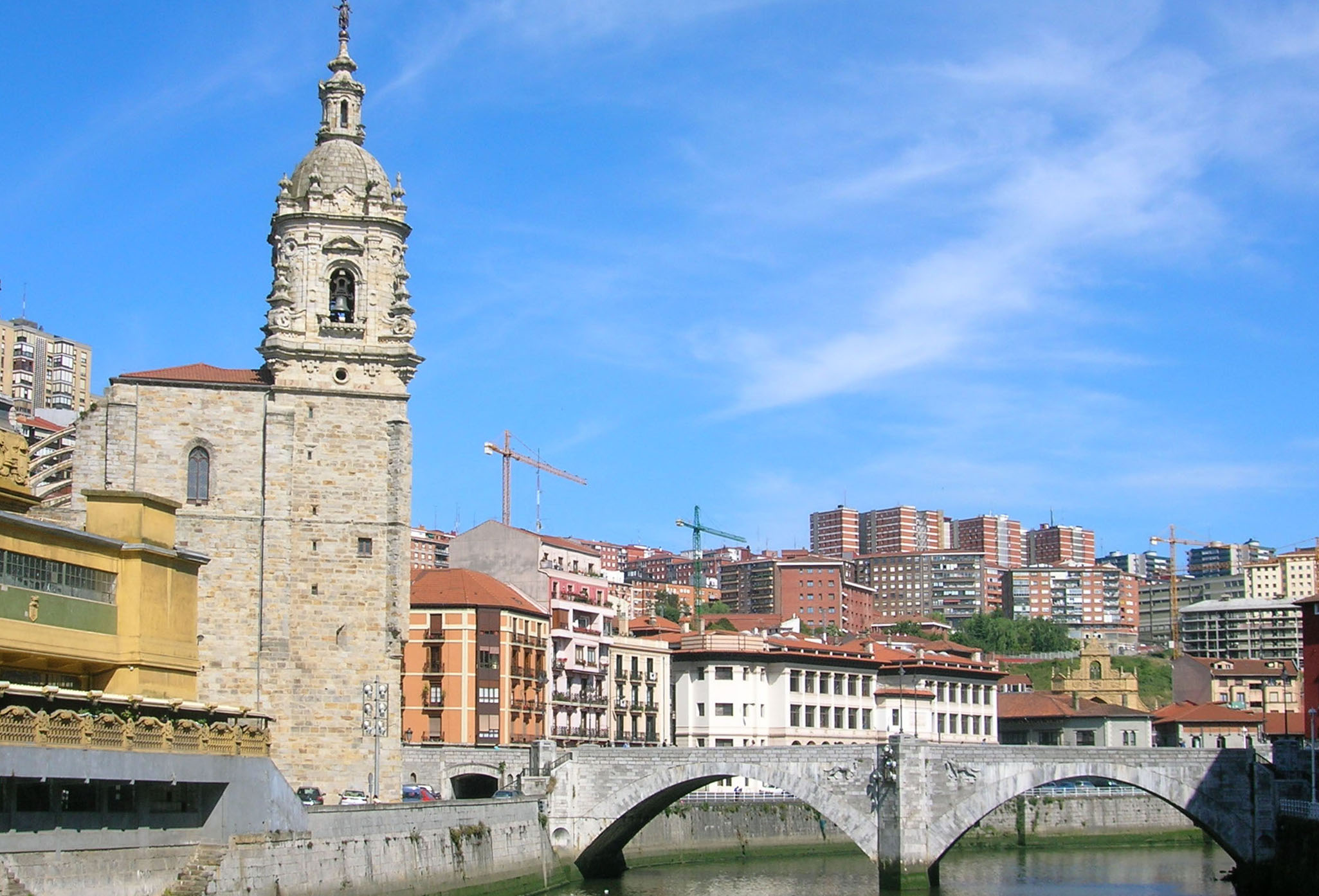 "San Antón" (Saint Antonius) Bridge and Church in Bilbao.